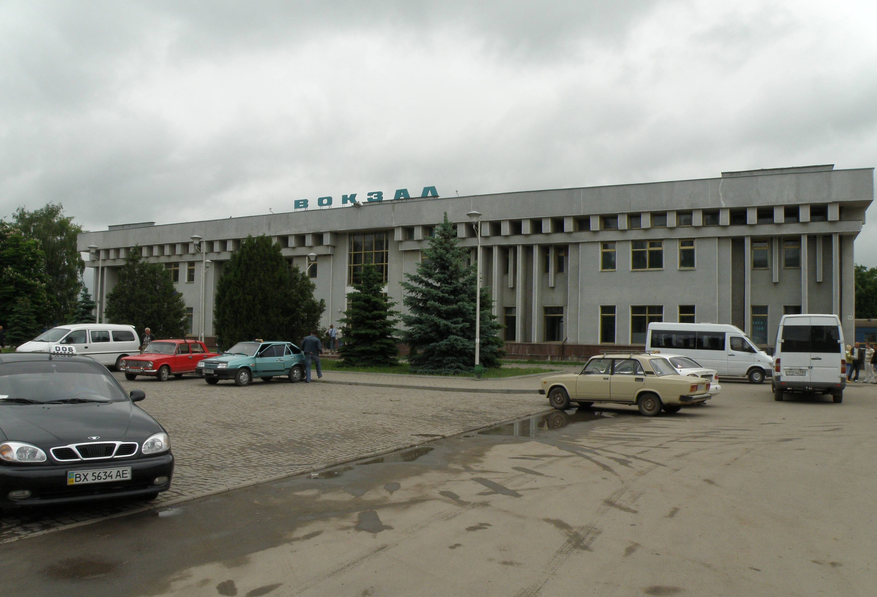 Train station in Kamianets-Podilskyi (Ukraine).